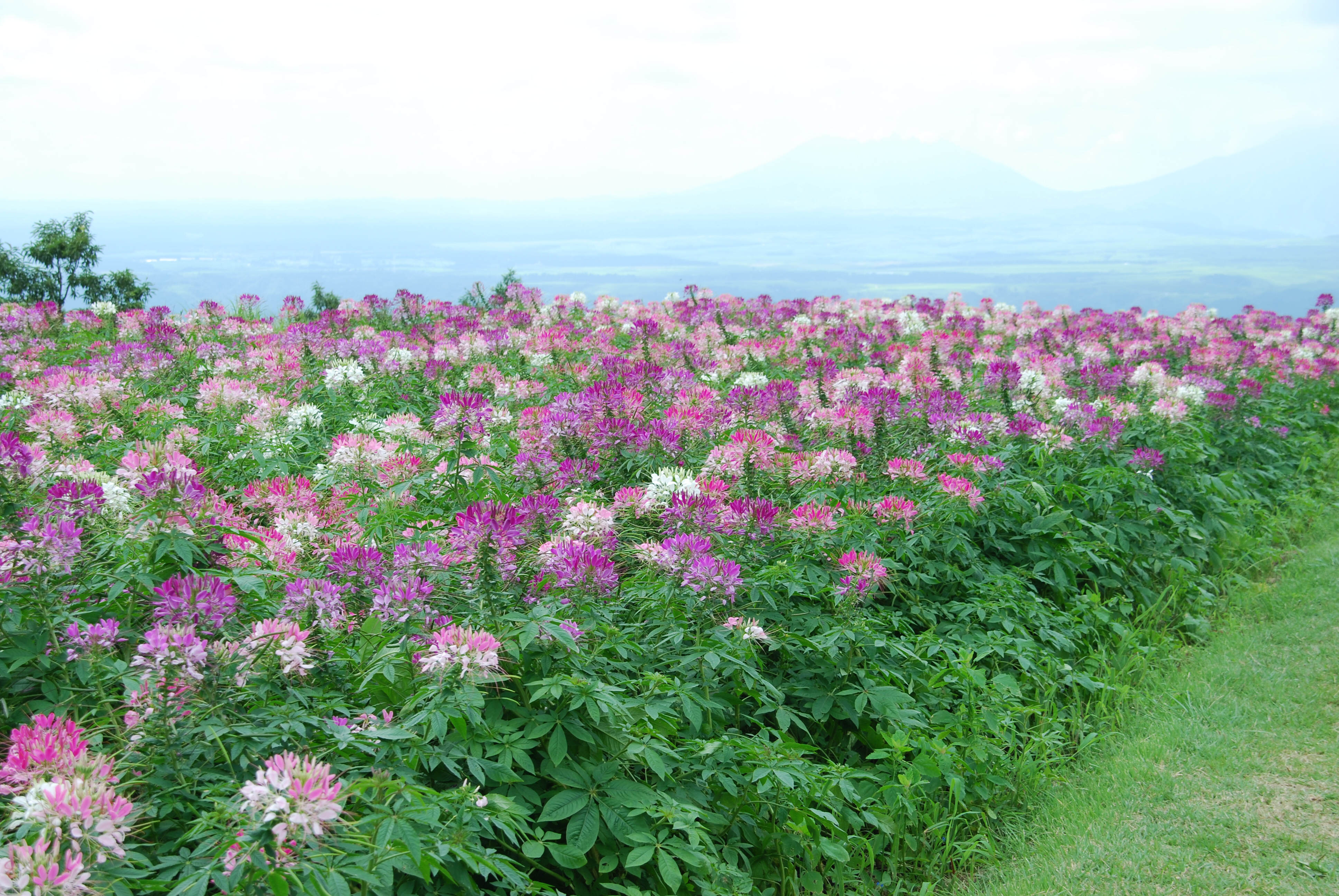 Cleome spinosa and Mt.Aso Kyusyu Japan